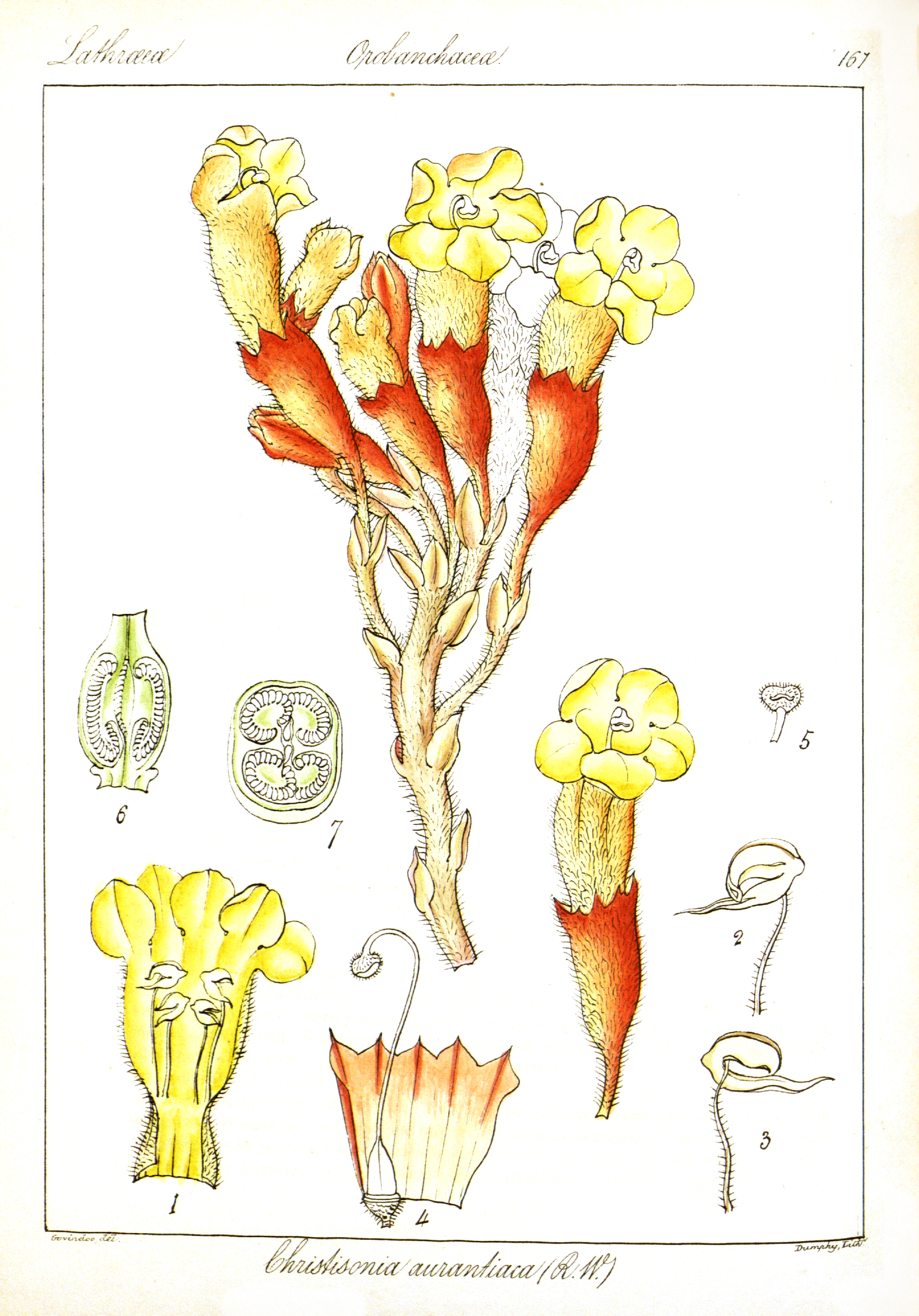 Christisonia bicolor Gardner [as Christisonia aurantiaca Wight]